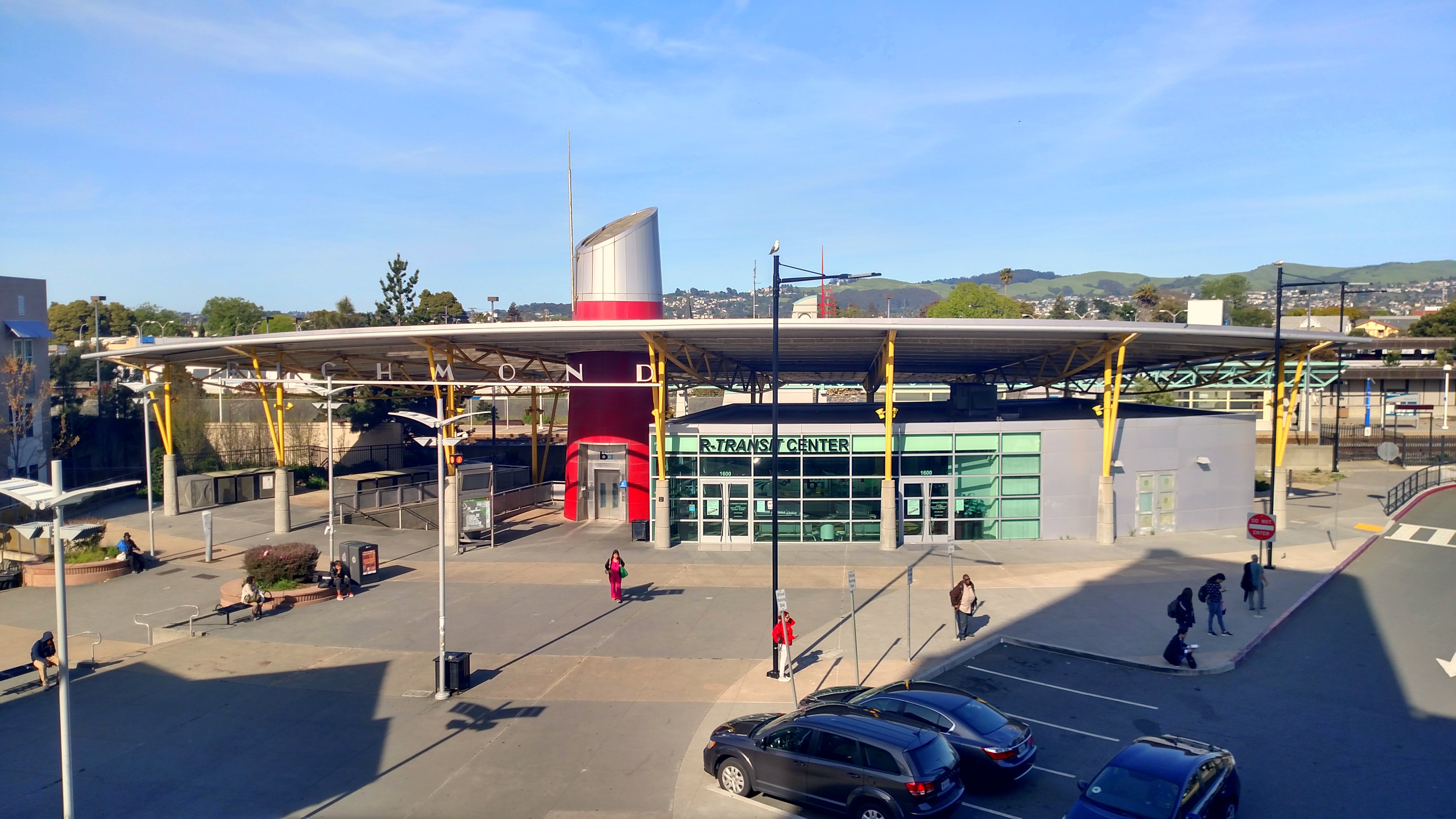 Entrance canopy at Richmond station in April 2018